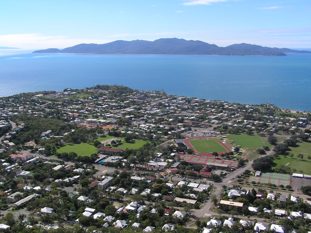 Magnetic Island with Townsville suburbs in the foreground